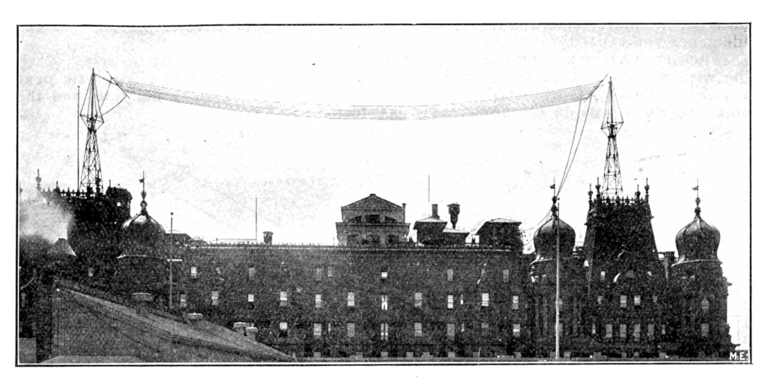 The United Wireless Telegraph Company radiotelegraph station (WA), atop the Waldorf-Astoria building in New York City. Via Citizendium